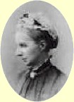 A photograph of Harriet Angelina Fortescue Urquhart, an author of numerous articles on international affairs. She was a wife of famous diplomat David Urquhart.